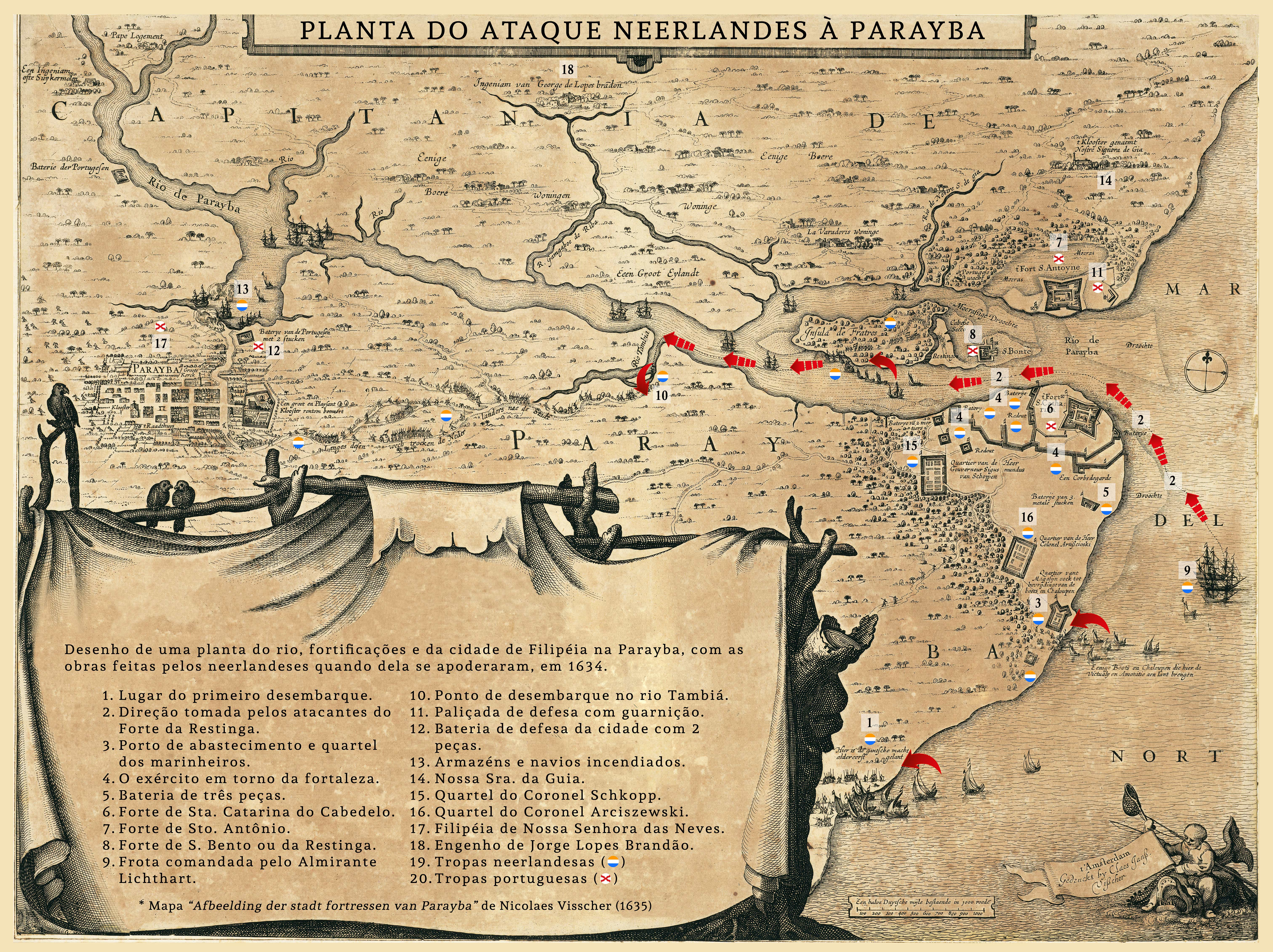 Conquest of Paraiba Map